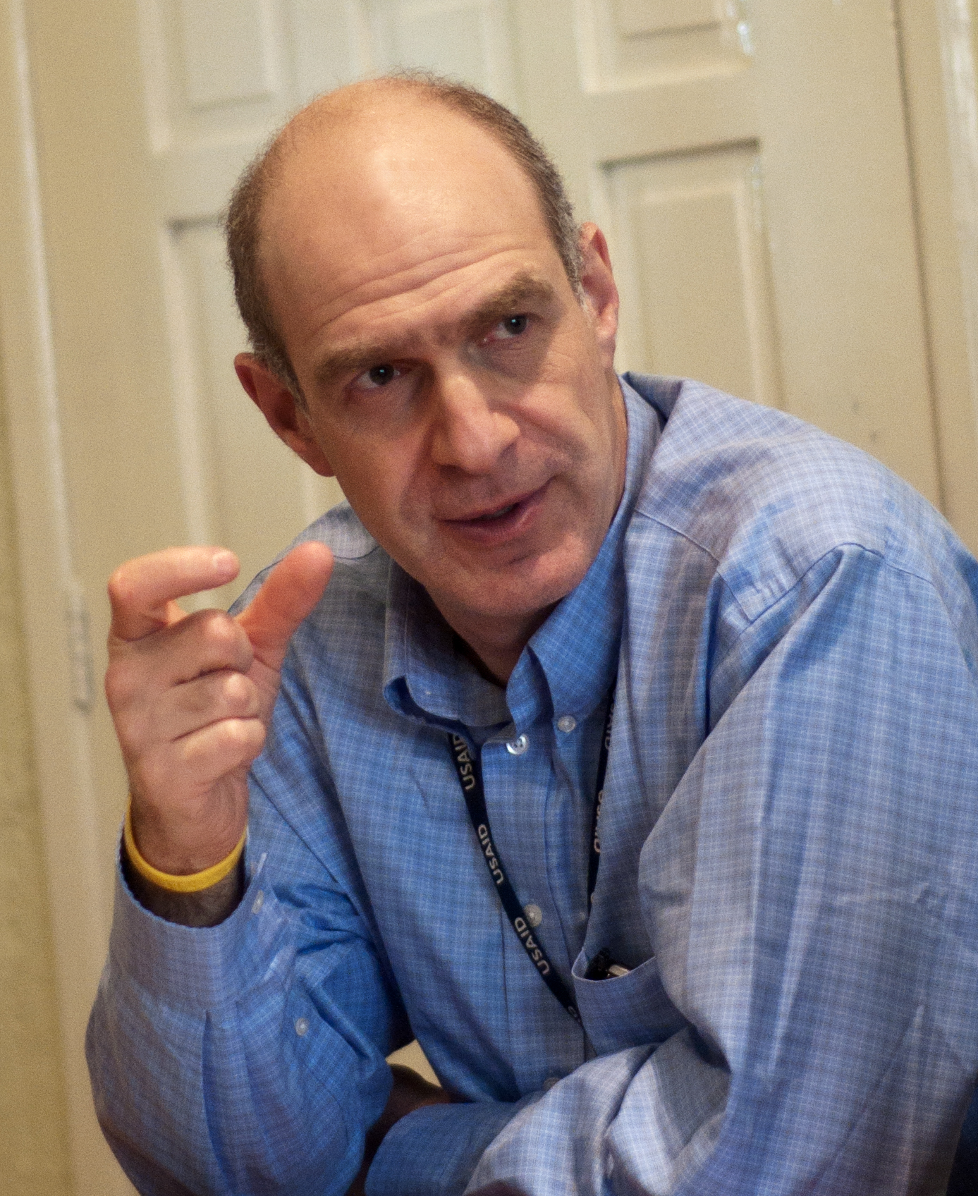 USAID Assistant Administrator for Latin America and the Caribbean Mark Feierstein met with mobile banking stakeholders. Photo by Ben Edwards/USAID